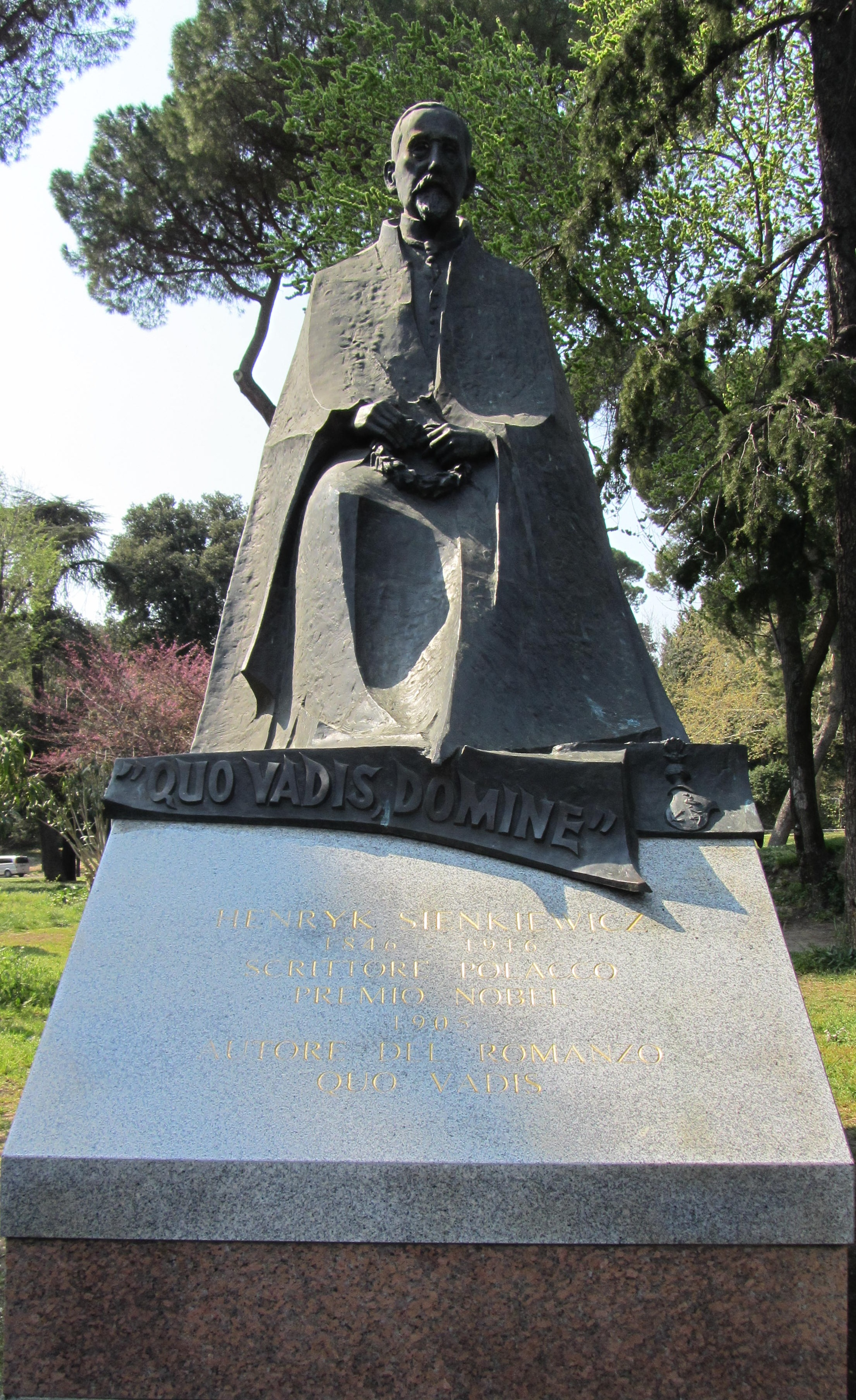 Statue of Polish epic writer and nobel laureate Henryk Sienkiewicz near Villa Borghese in Rome